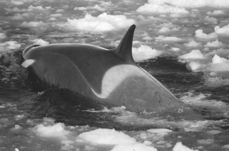 Type C orca showing slanted eyepatch and cape, R. Pitman photo, 20 Jan 2002, 77°39’S, 165°54’E.